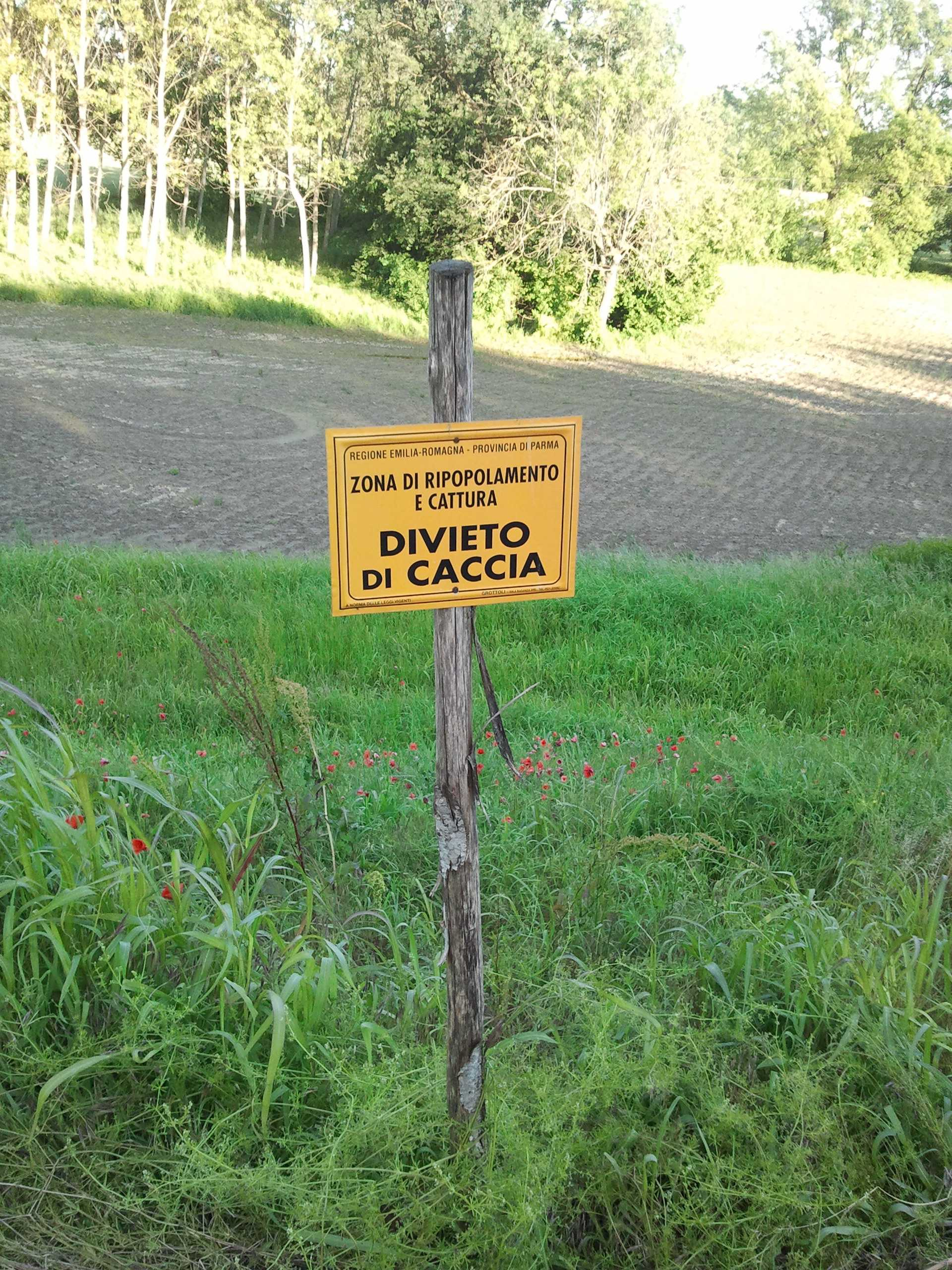 Hunting not permitted sign in Emilia-Romagna, Italy.